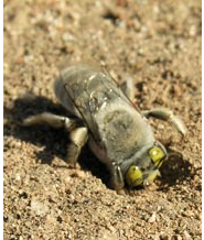 digging male